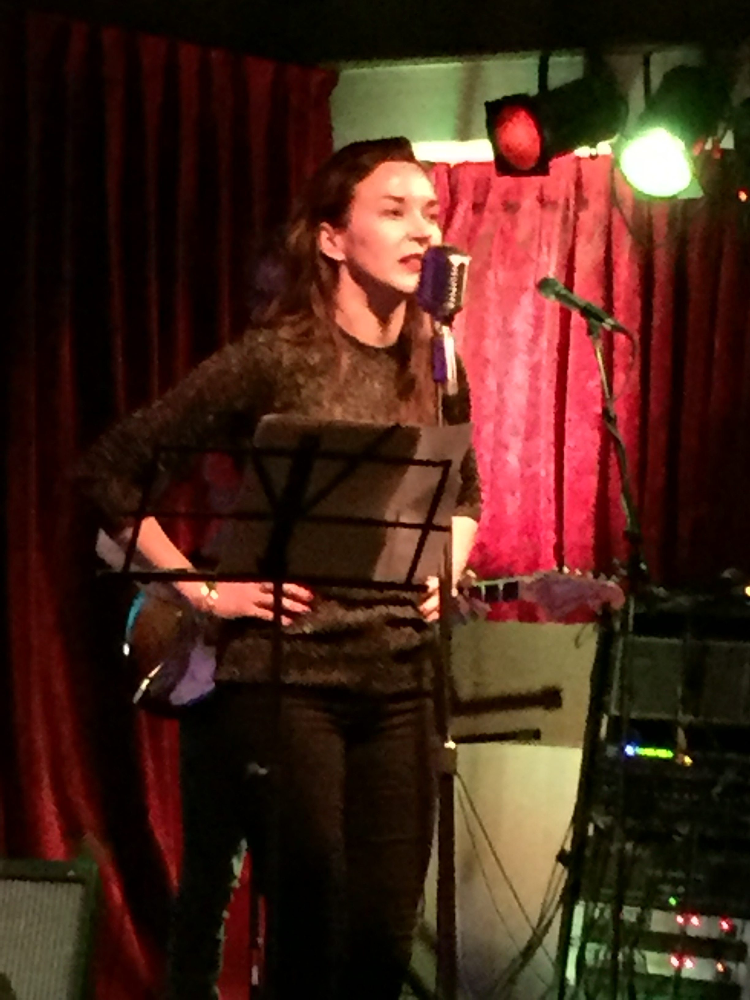 Sunny Ozell live at the Big Easy in Petaluma, California